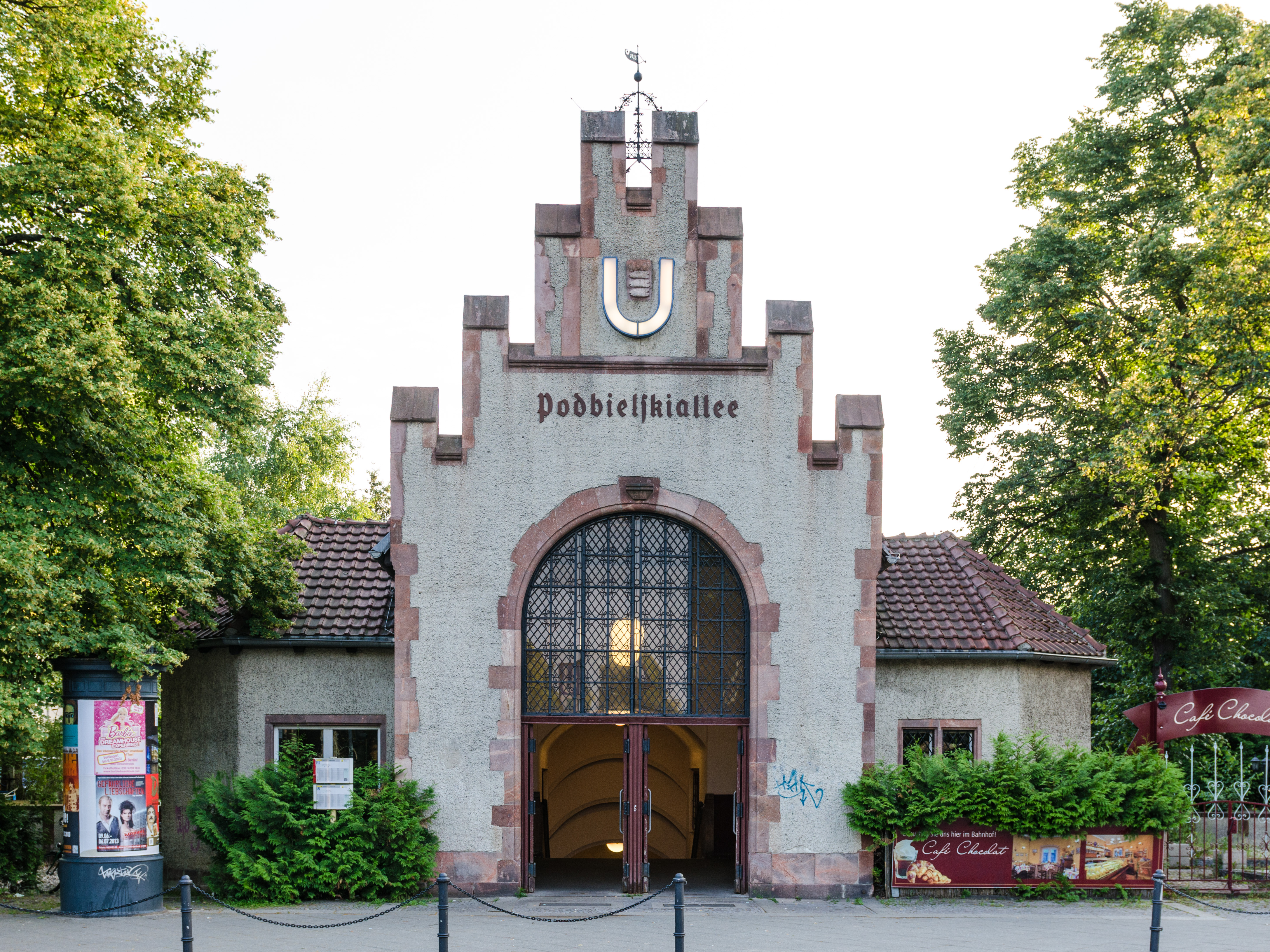 The entry and main building of the U3 station Podbielskiallee